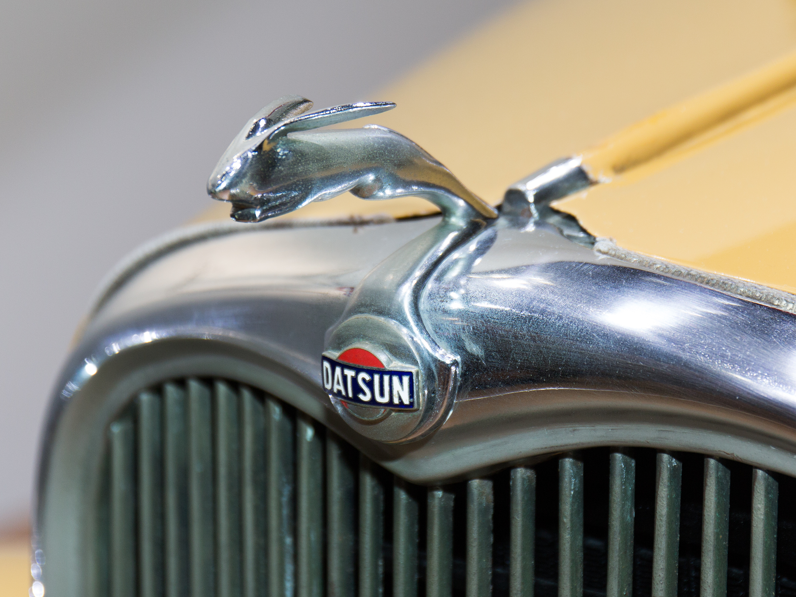 Tokyo Motor Show 2013: Datsun 14 Roadster